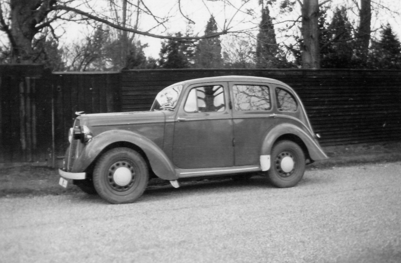 This a photo of a 1938 model Hillman Minx. The photo was taken in the winter of 1939/1940 and the car is complying with blackout regulations. The car was red in colour.